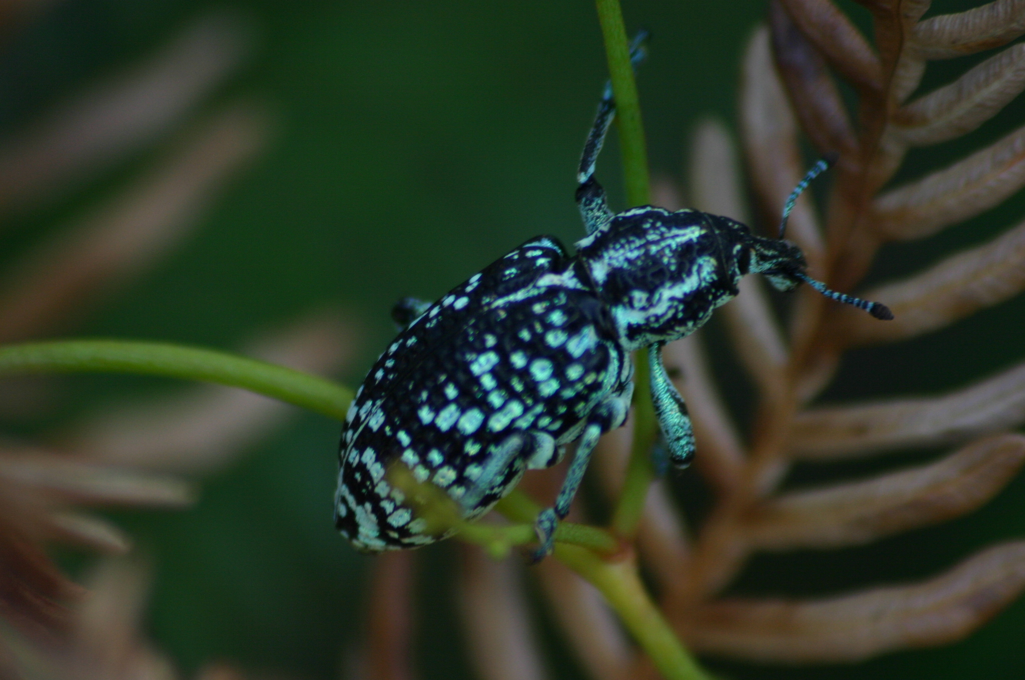 Botany Bay Diamond Weevil